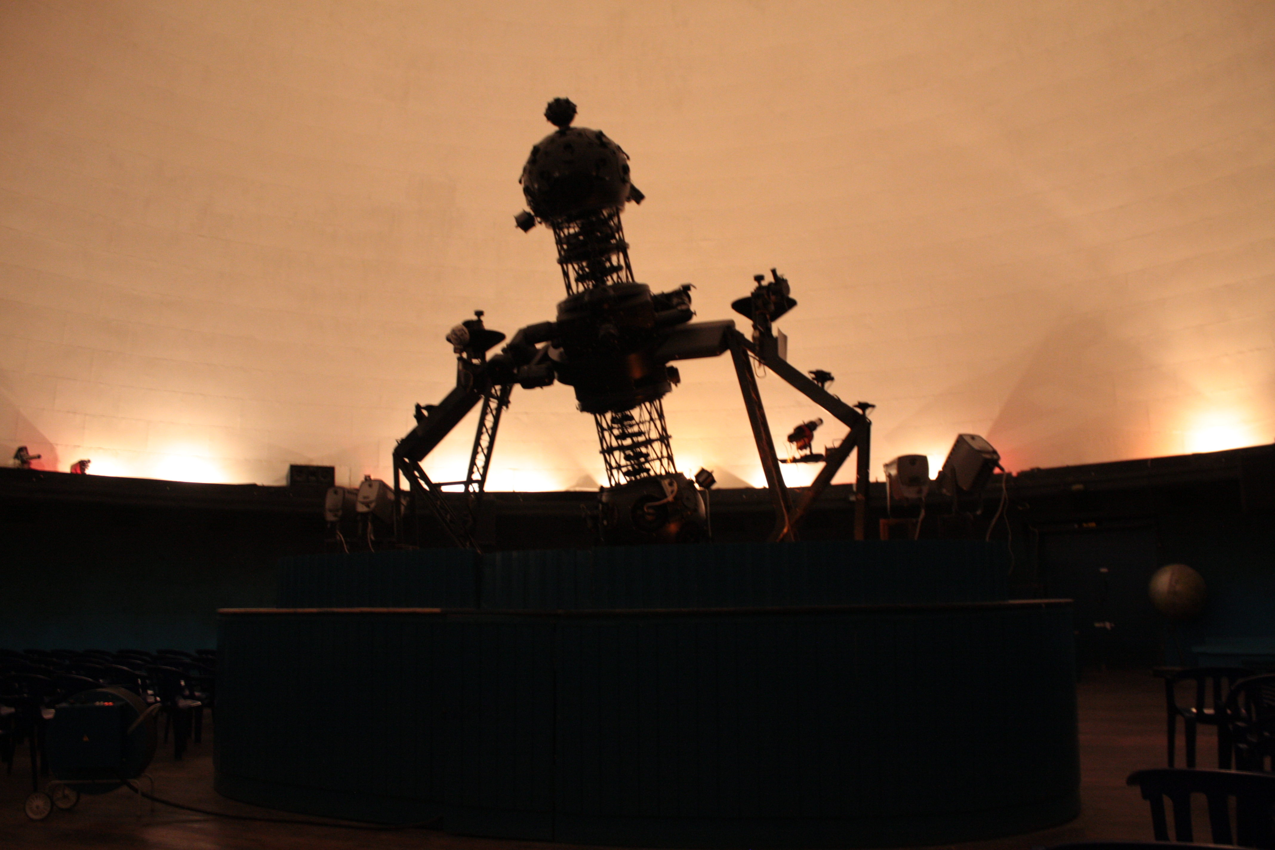 Chief projector in the planetarium of St. Petersburg.